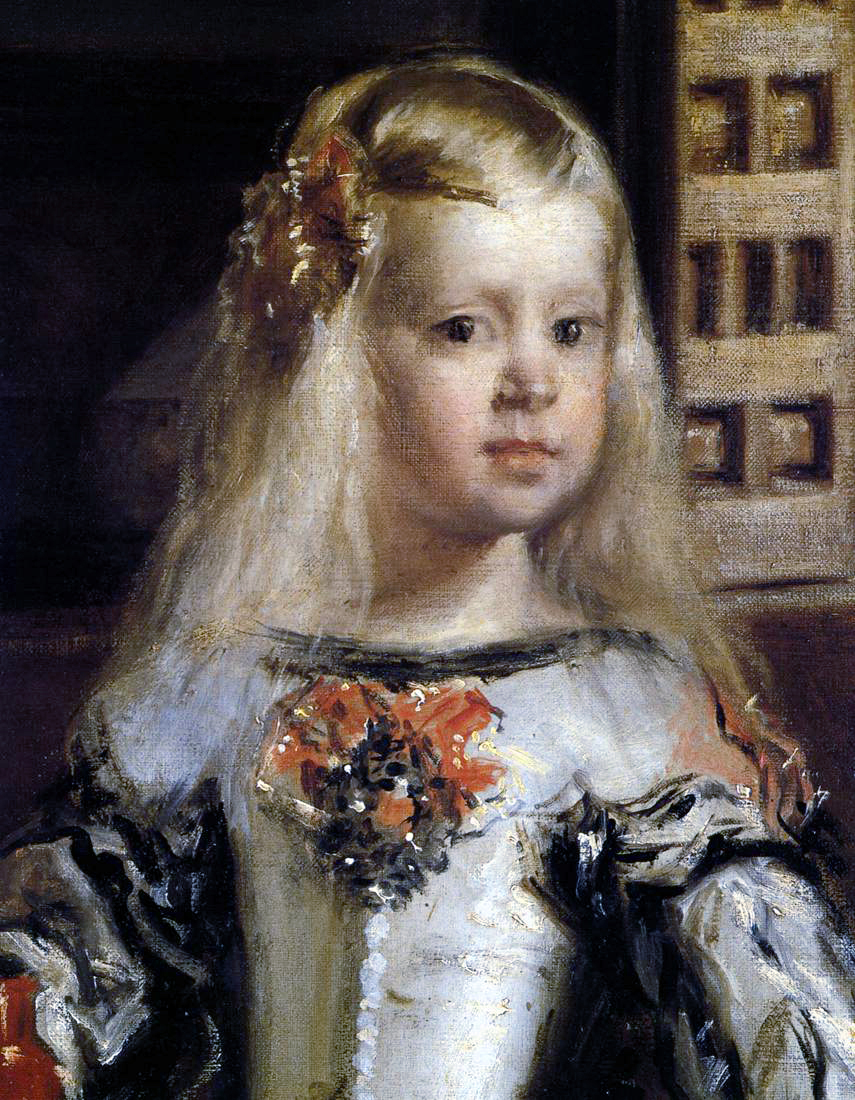 Infanta Margarita cropped from larger painting